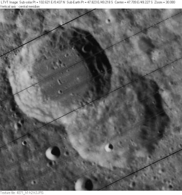 LO-IV-071H Watt is the crater in the lower right, overlain by the similarly-sized Steinheil (to its northwest). The sharp-shadowed 6-km circle of Watt B can be seen on the south floor of Watt, with 10-km Watt A and 12-km Watt B beyond it (outside the rim). In the upper left corner of this view are 17-km Steinheil X and 16-km Steinheil Y (only partially visible).